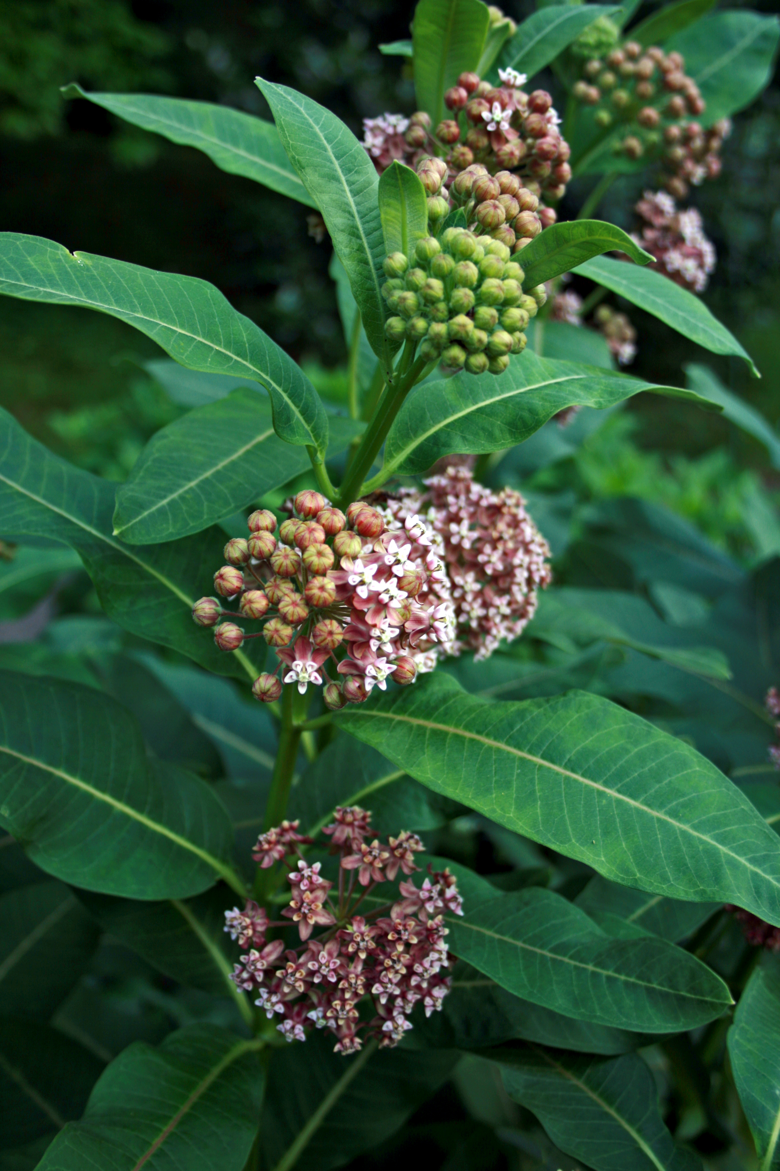 Asclepias syriaca from Botanical Garden of Charles University in Prague, Czech Republic